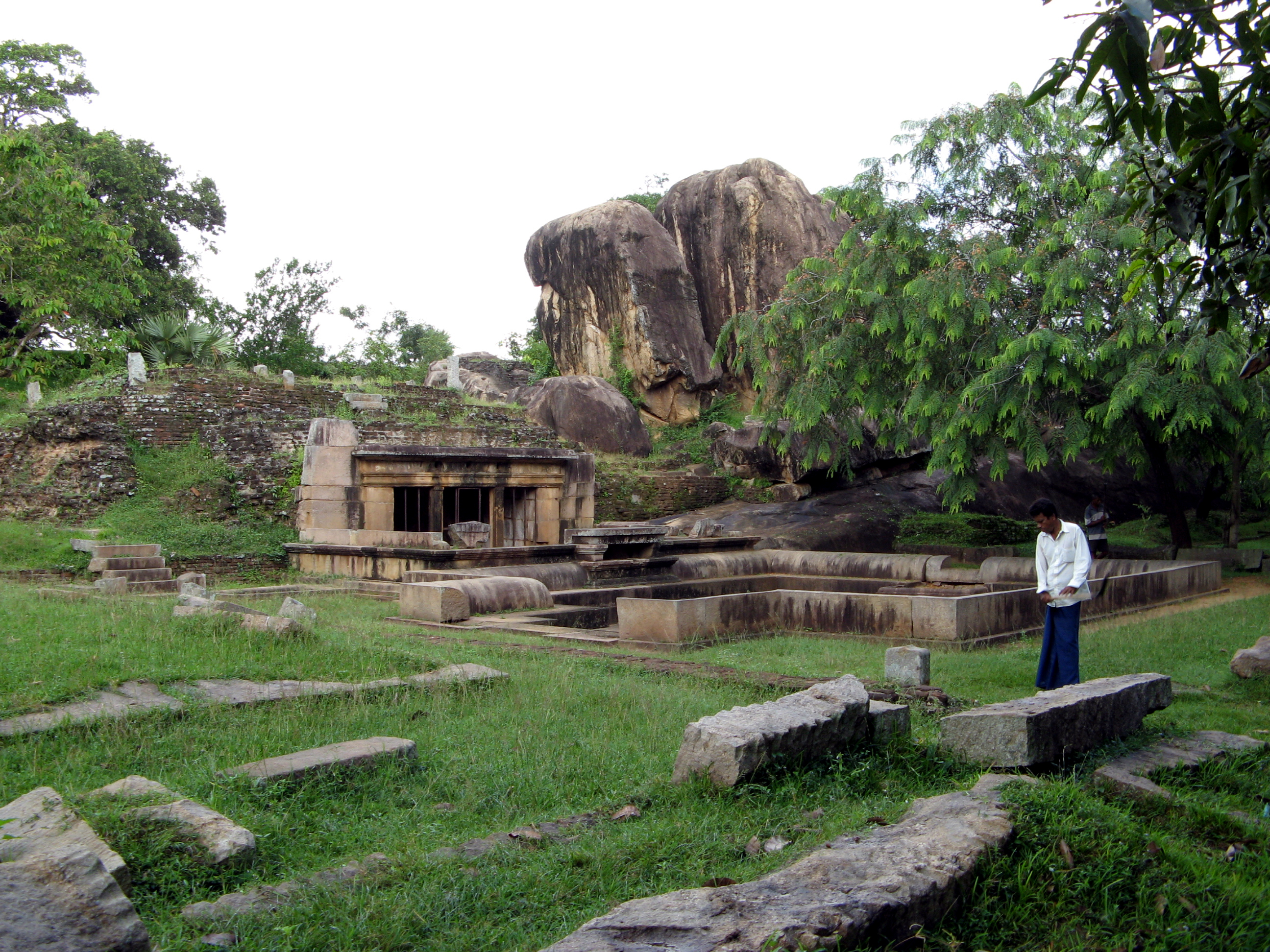 Royal gardens were first constructed here in the time of King Tissa (3d century BC), when the reservoir was built. However, the pleasure pavilions and other fixtures seen today date from the 8th - 9th centuries AD.